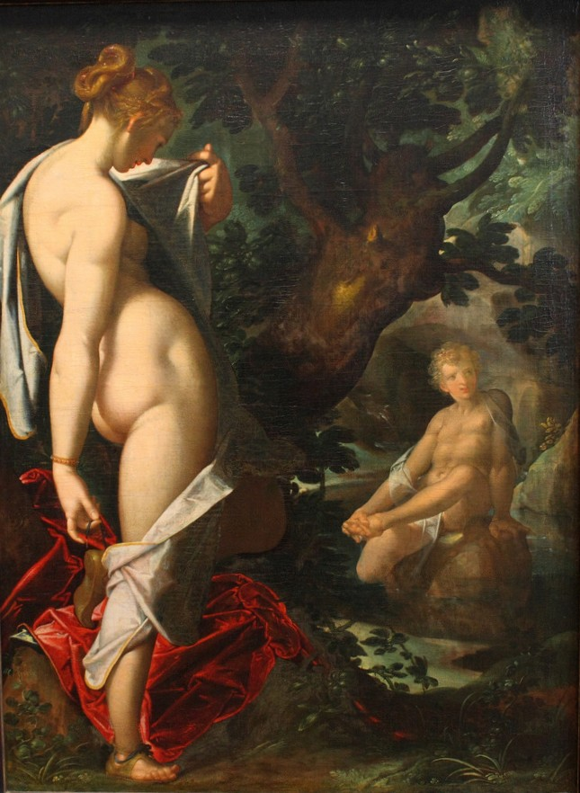 Salmacis and Hermaphroditus, Kunsthistorisches Museum, Vienna